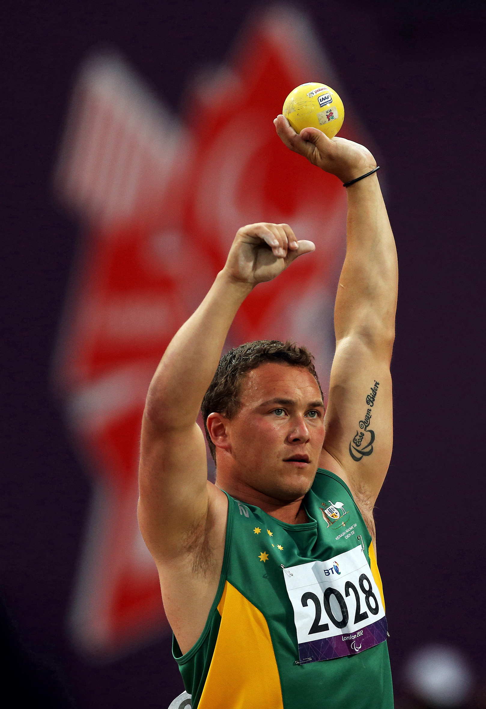 Photograph of Australian Paralympic team member Damien Bowen at the 2012 Summer Paralympic Games in London